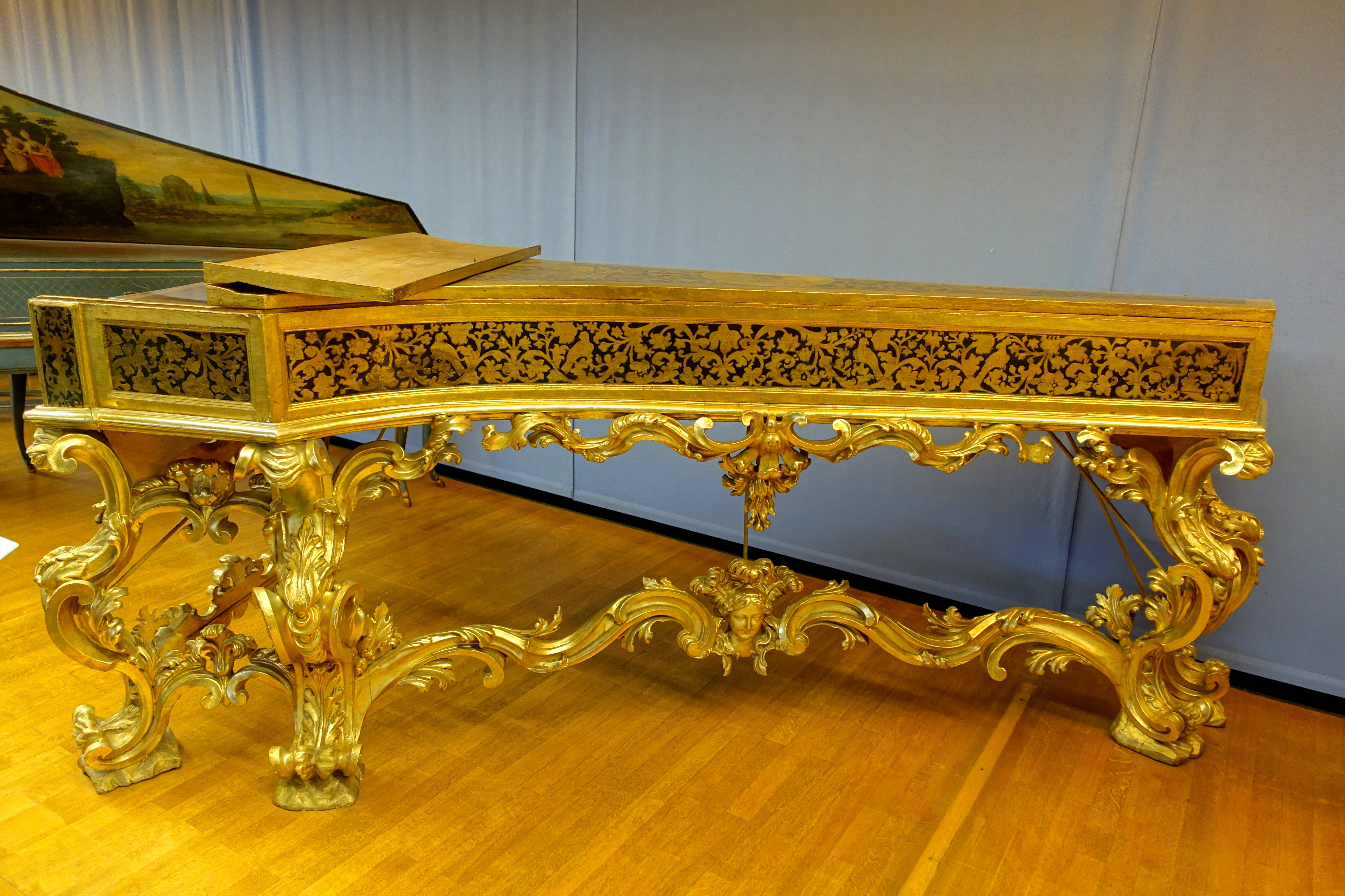 Exhibit in the Germanisches Nationalmuseum - Nuremberg, Germany.